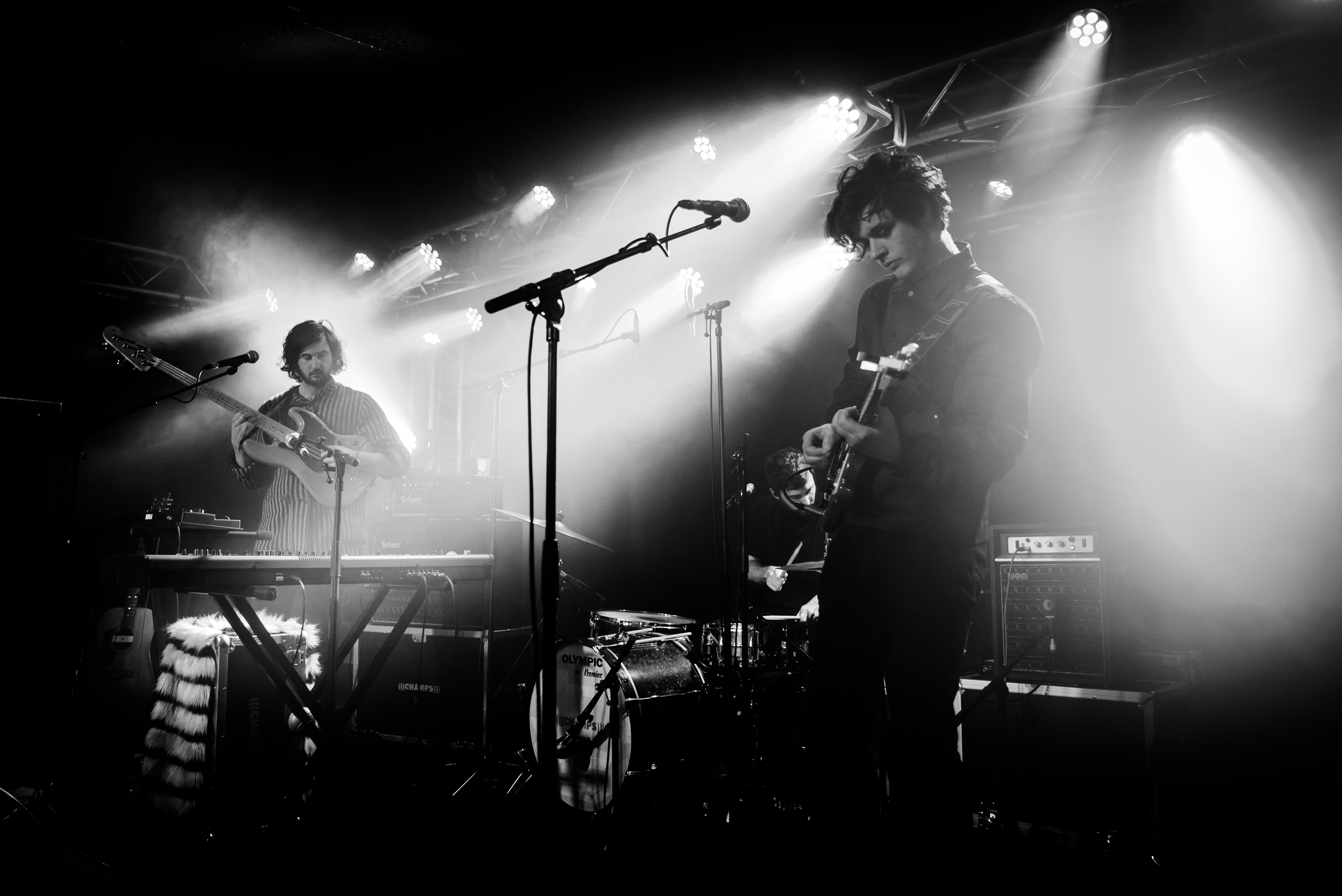 CHAMPS LA BOULE NOIRE 2015 JULIEN LEPEUT